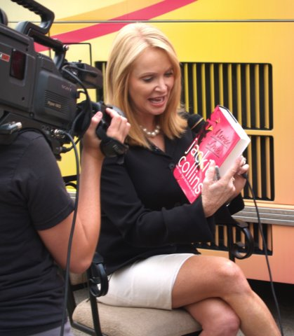 Photo of Sandra Maas holding a book